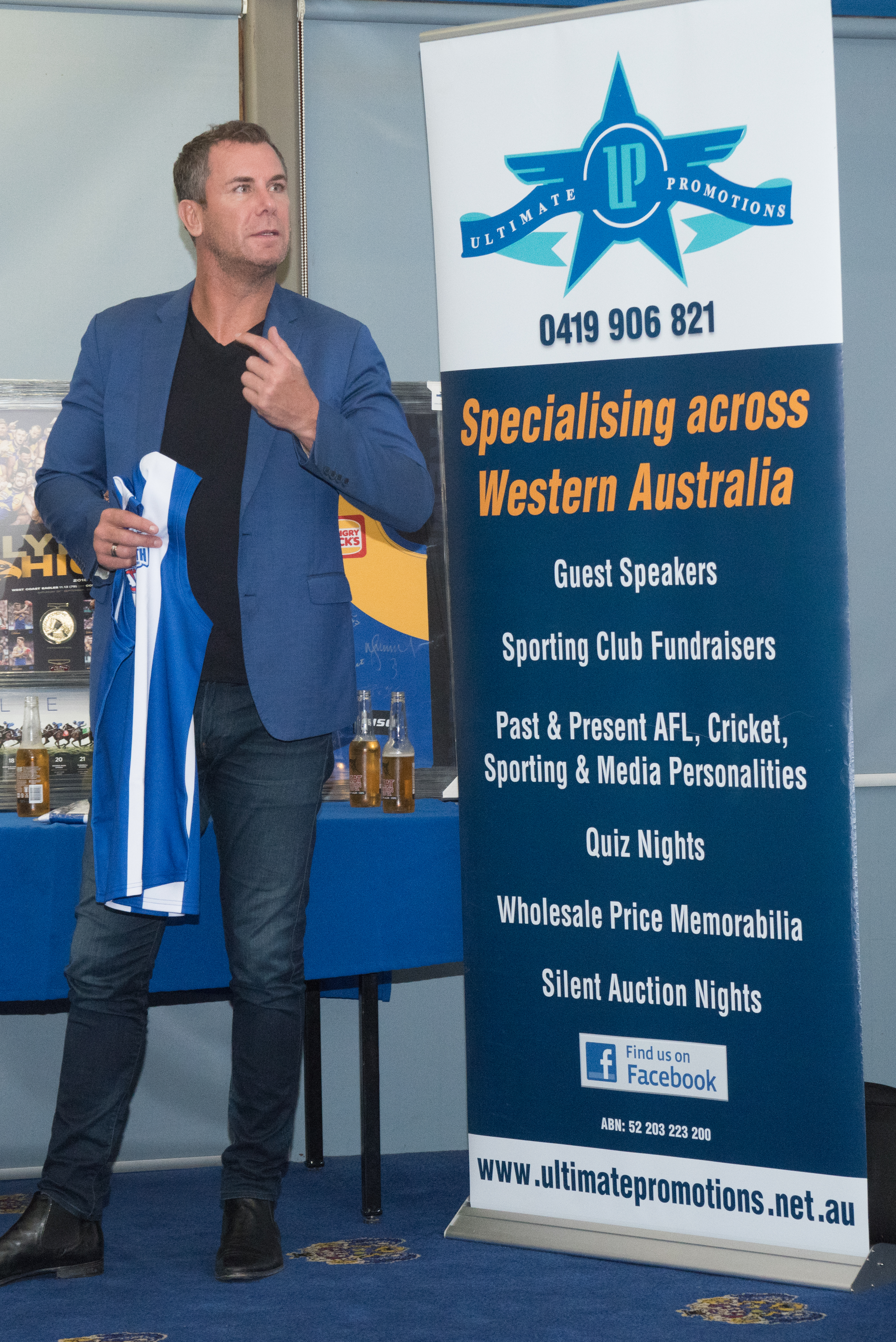 Ultimate Promotions presentation, Wayne Carey at Gosnells Hawks Football Club 2019